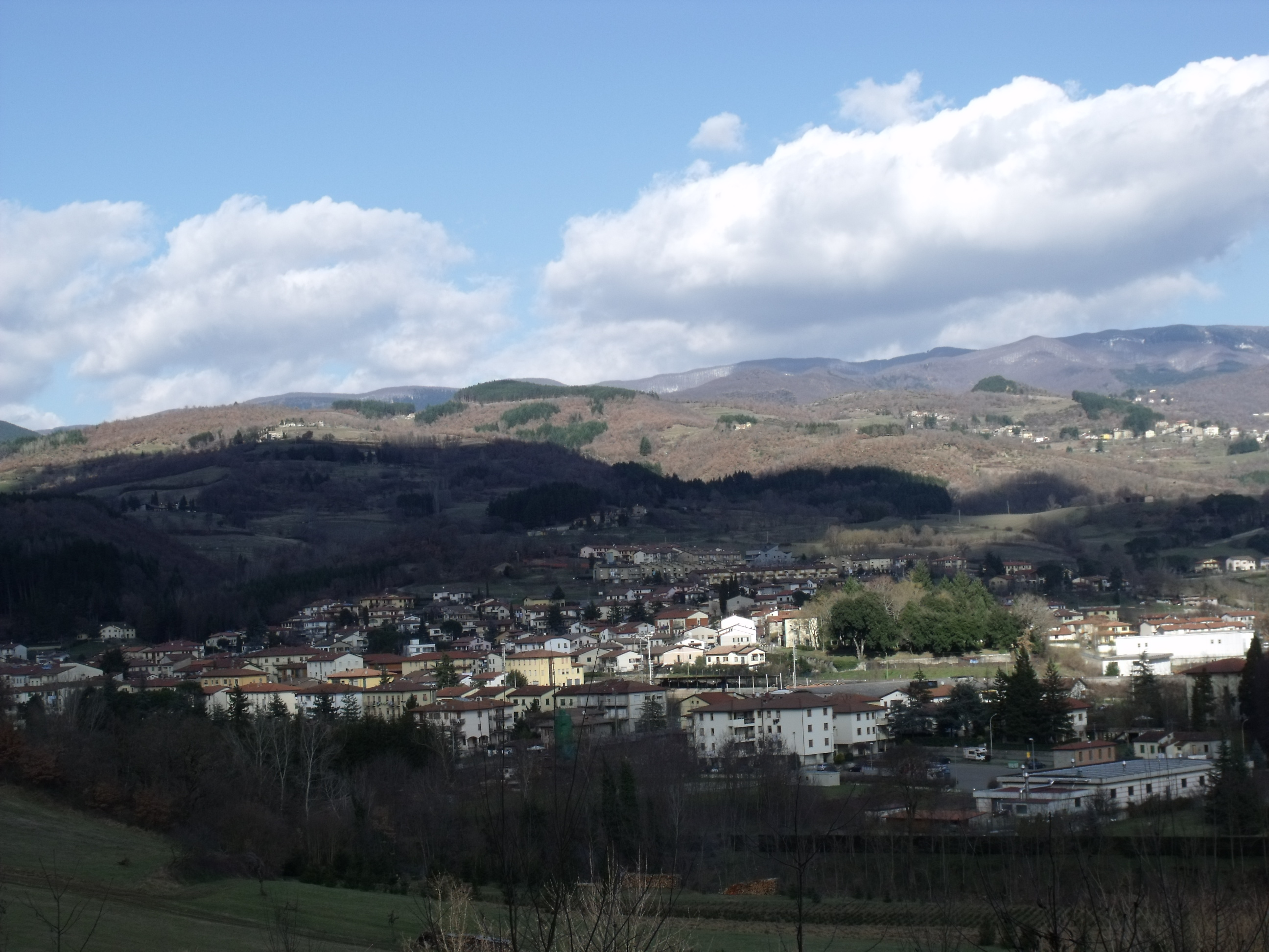 Panorama of Pratovecchio, Casentino, Province Arezzo, Tuscany, Italy